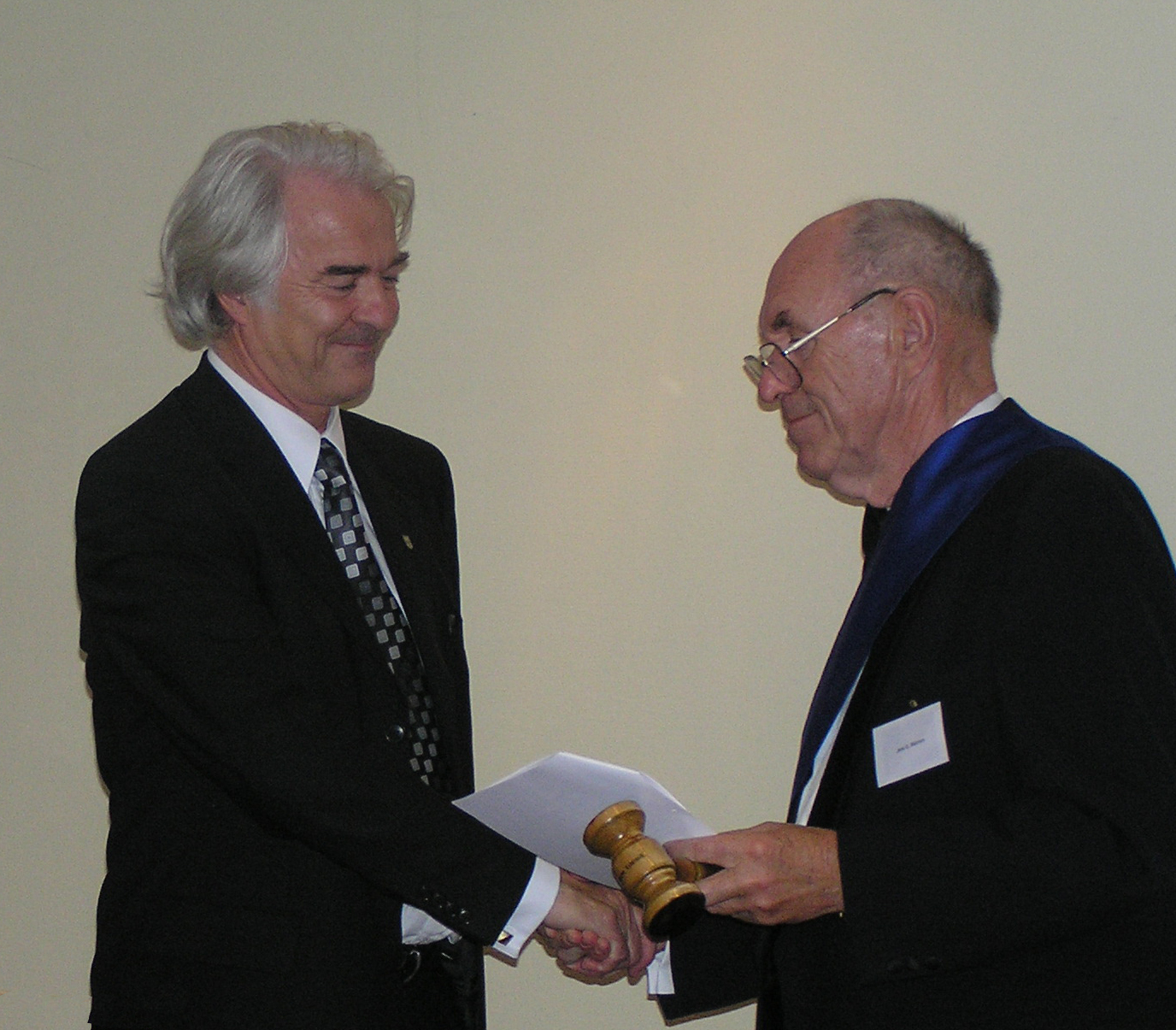 Steinar Sælid "knighted" as Master of the humorous Order Den Gyldne Tilbakekoblede Sløyfe (The Golden Retroactive Control Loop), by professor Jens Balchen